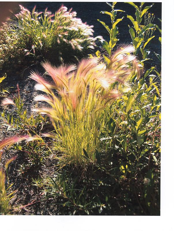 Foxtail Barley